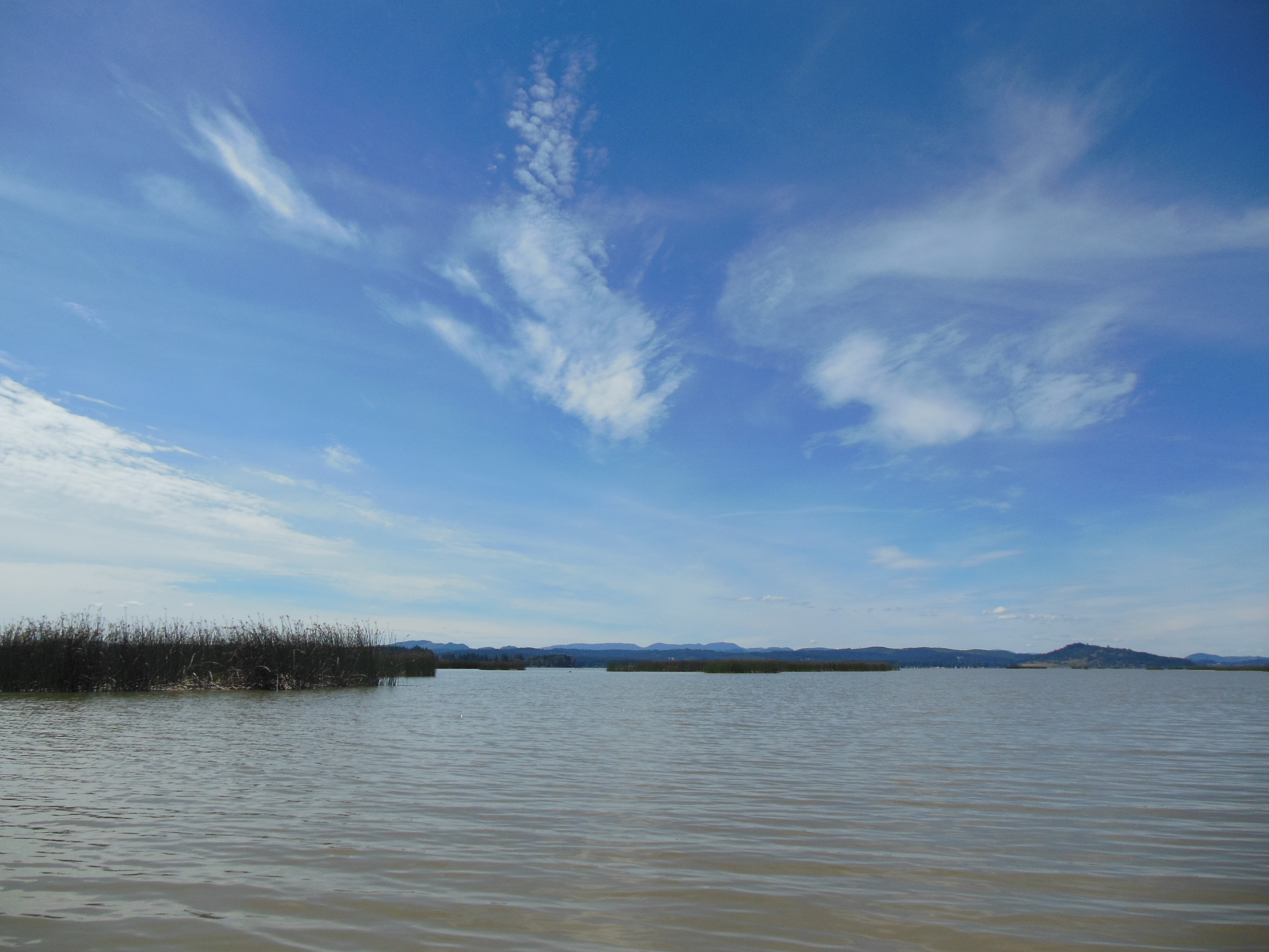 Fern Ridge Reservoir in Lane County, Oregon, United States